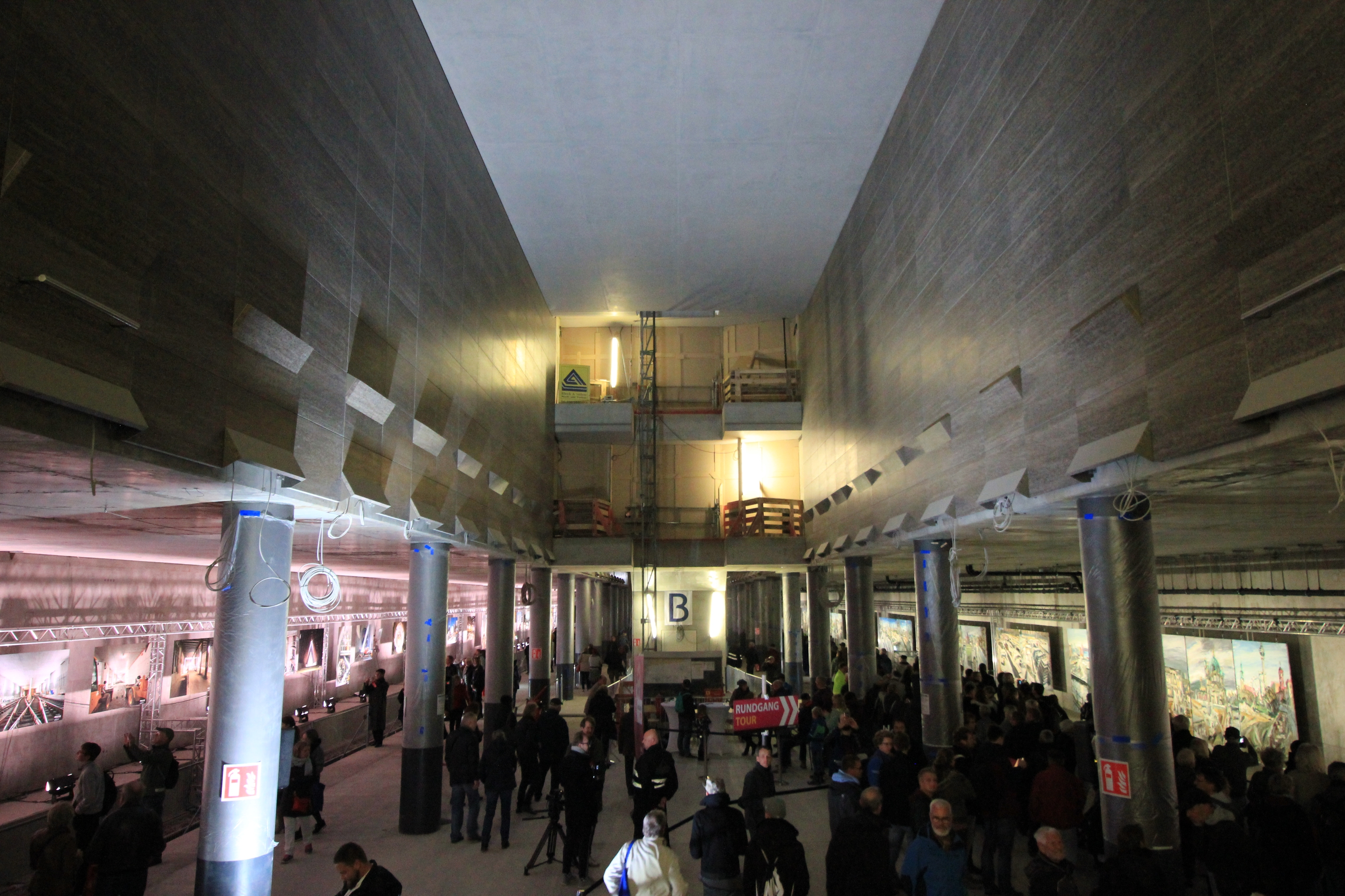 "Open Doors Day" at construction site of the new underground station "Unter den Linden" in Berlin, Germany